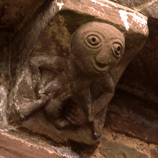 A scan from a 35mm photograph which I took at the exquisite Romanesque church of Saint Mary and Saint David in Kilpeck, Herefordshire, England in 1989. It shows a carving, on a corbel, of a Sheela-na-gig, made during the late Norman period (mid 12th century AD) by an unknown sculptor of the "Herefordshire School". This scan is in the Public Domain (however, I retain ownership and copyright of the original transparency and any higher-resolution scans derived from it). If you use the photo outside Wikipedia, a photographer's credit (Simon Garbutt) would be appreciated. SiGarb 00:05, 23 November 2005 (UTC)